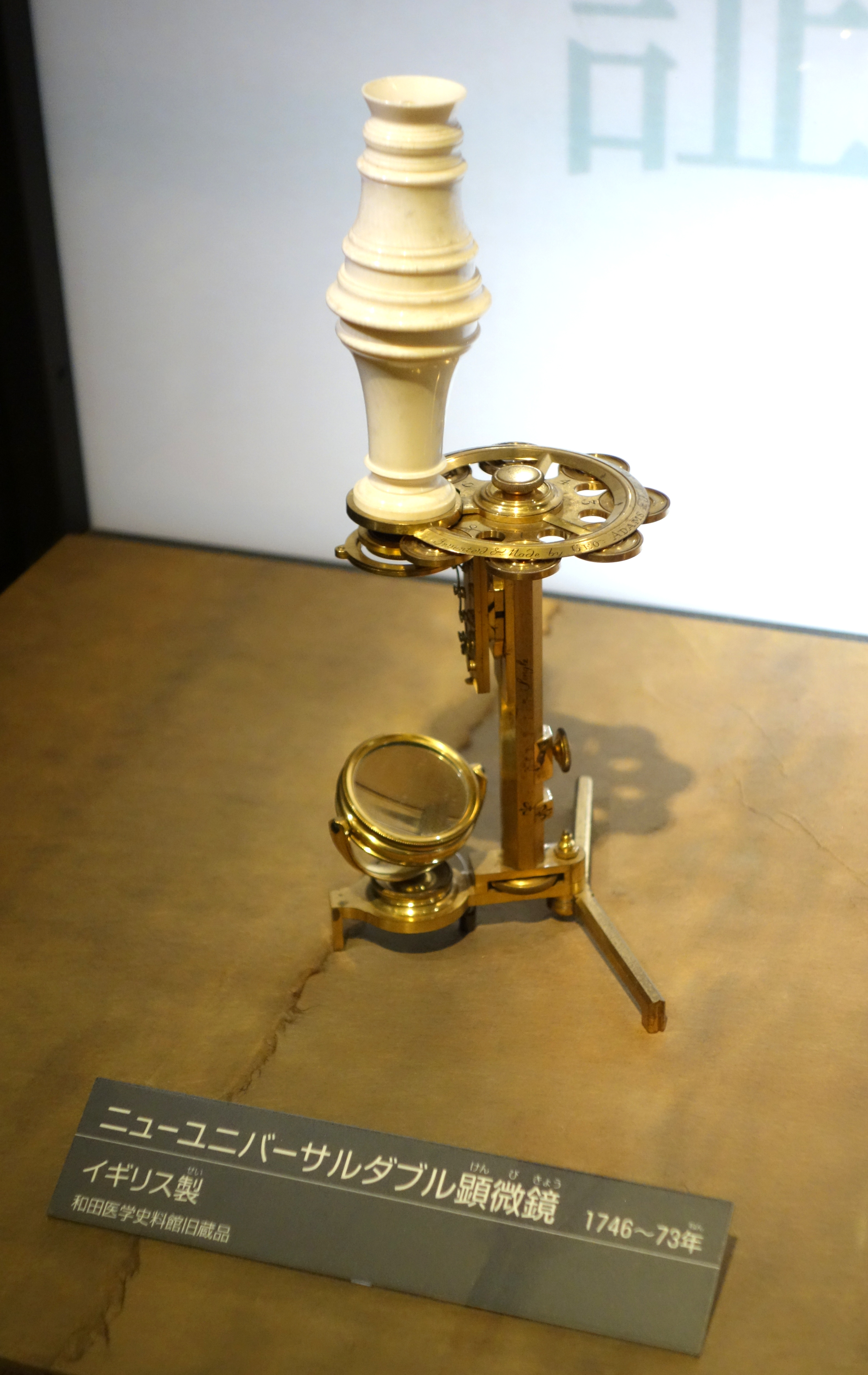 Exhibit in the National Museum of Nature and Science, Tokyo, Japan.